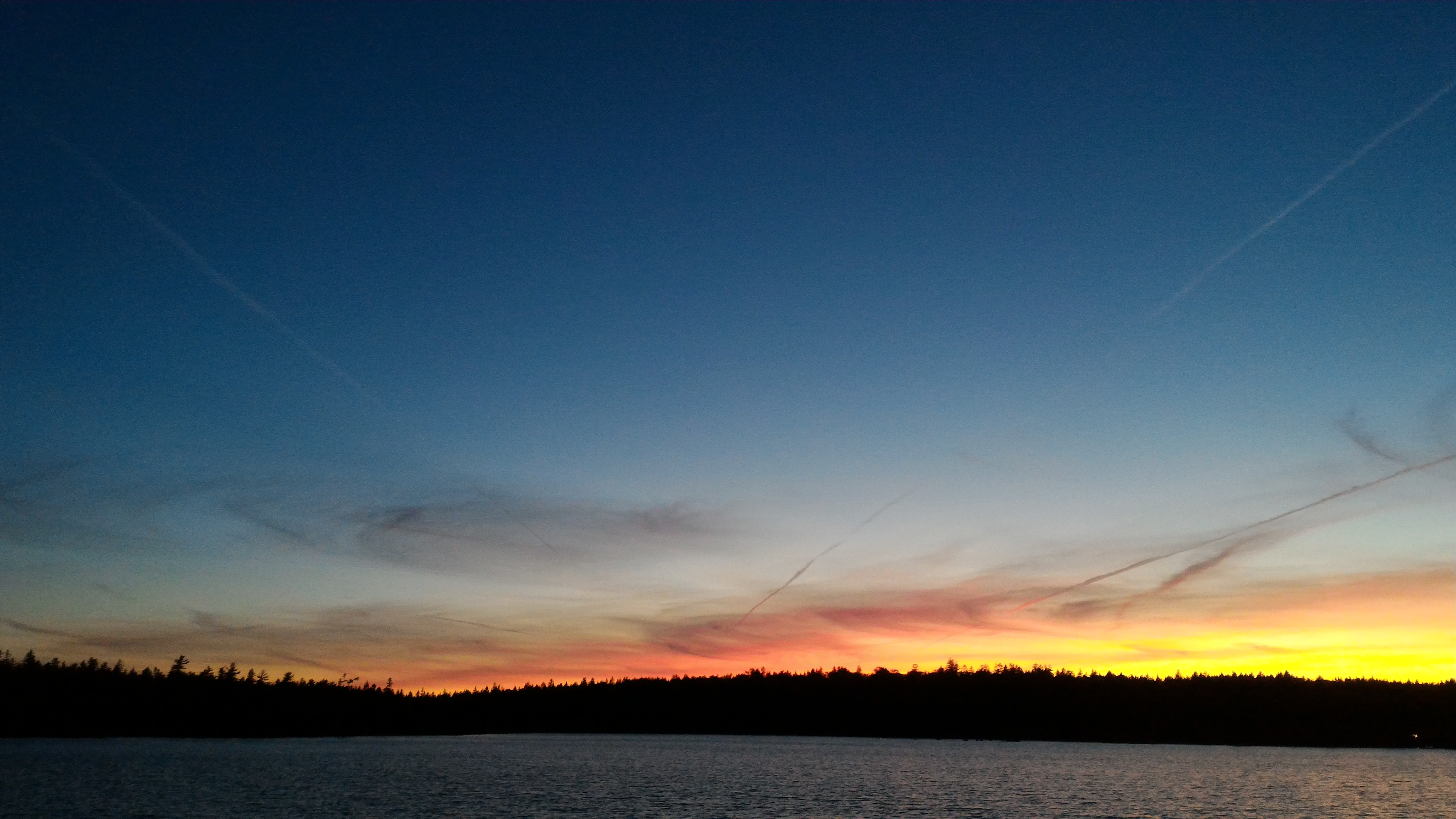 Sunset taken September 16, 2016.